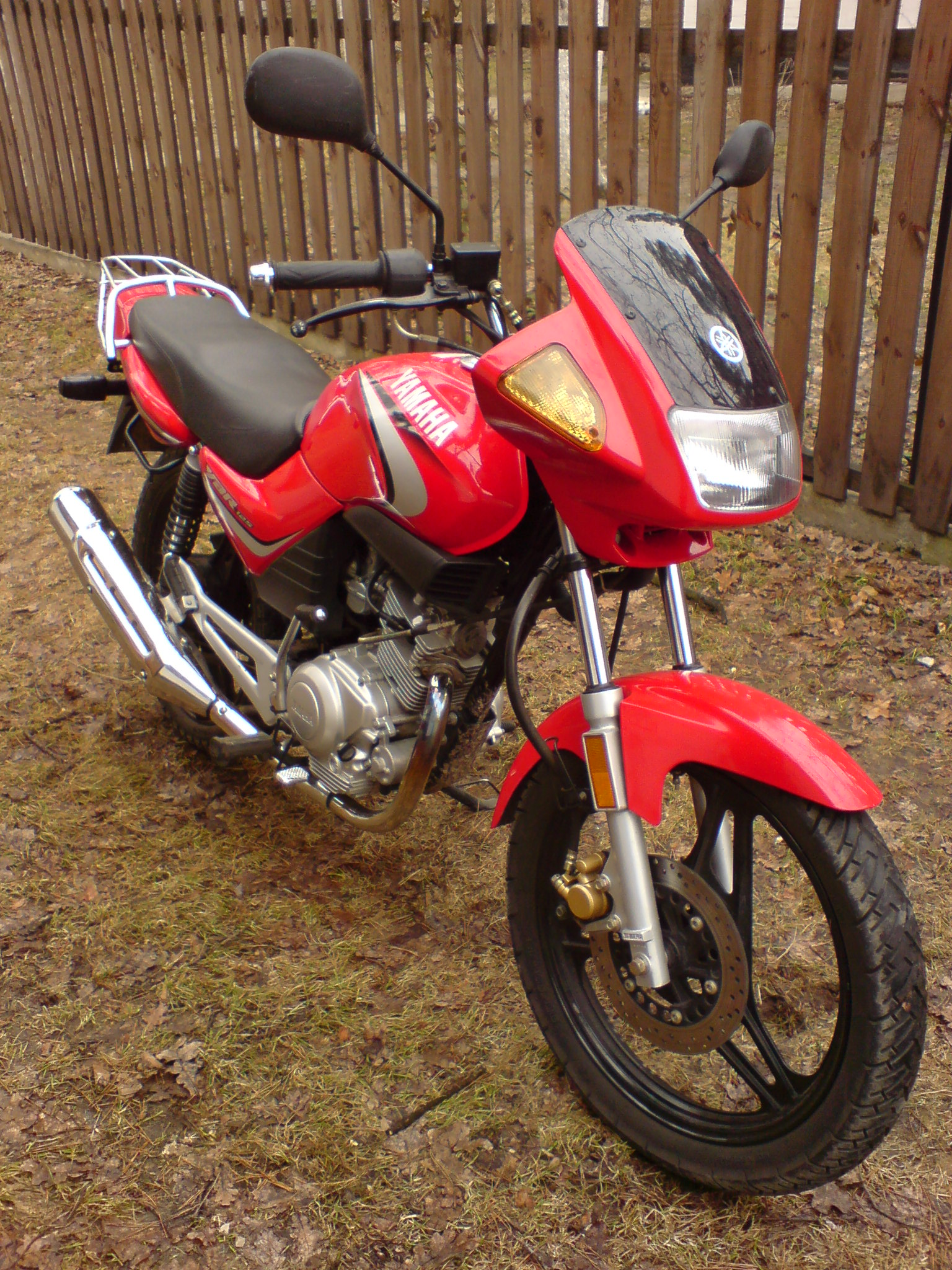 Yamaha YBR-125